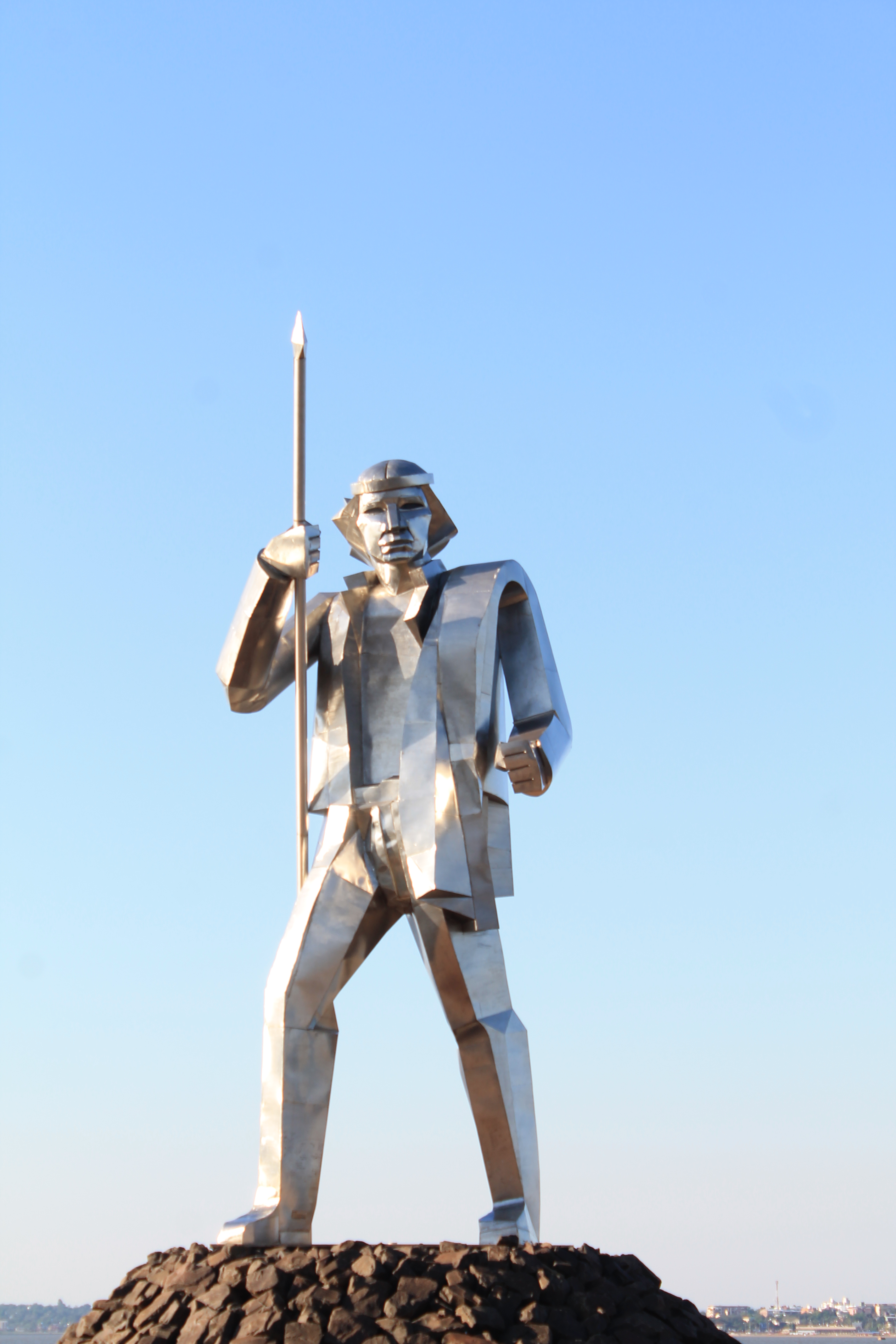 Colores Celeste y Blanco remarcan la presencia del Cmte